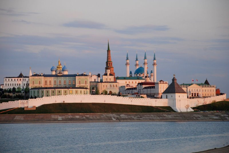 A view from Kazan Kremlin.